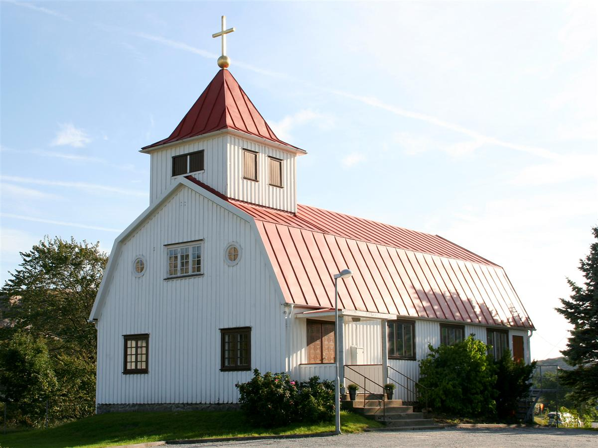 Bleket Church